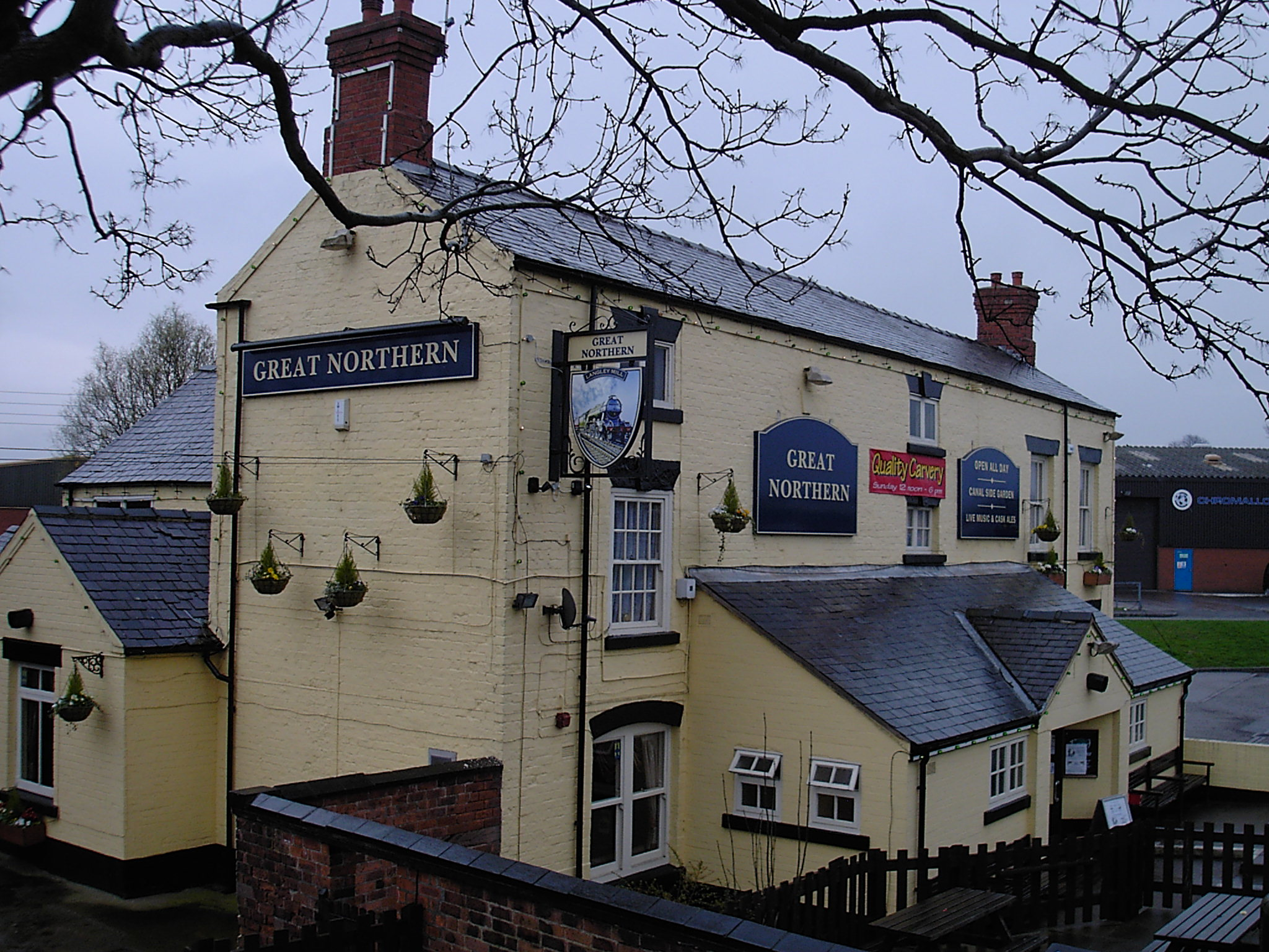 Langley Mill - The Great Northern